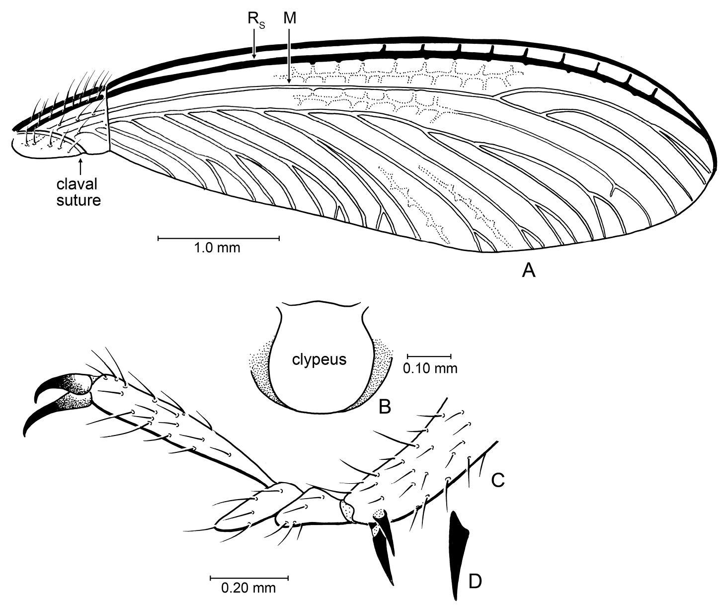 Details of Parastylotermes krishnai Engel & Grimaldi, sp. n., holotype (Tad-277). A Forewing venation B Clypeus (from Tad-96) C Pretarsus, tarsus, and extreme apex of tibia D Detail of spur.